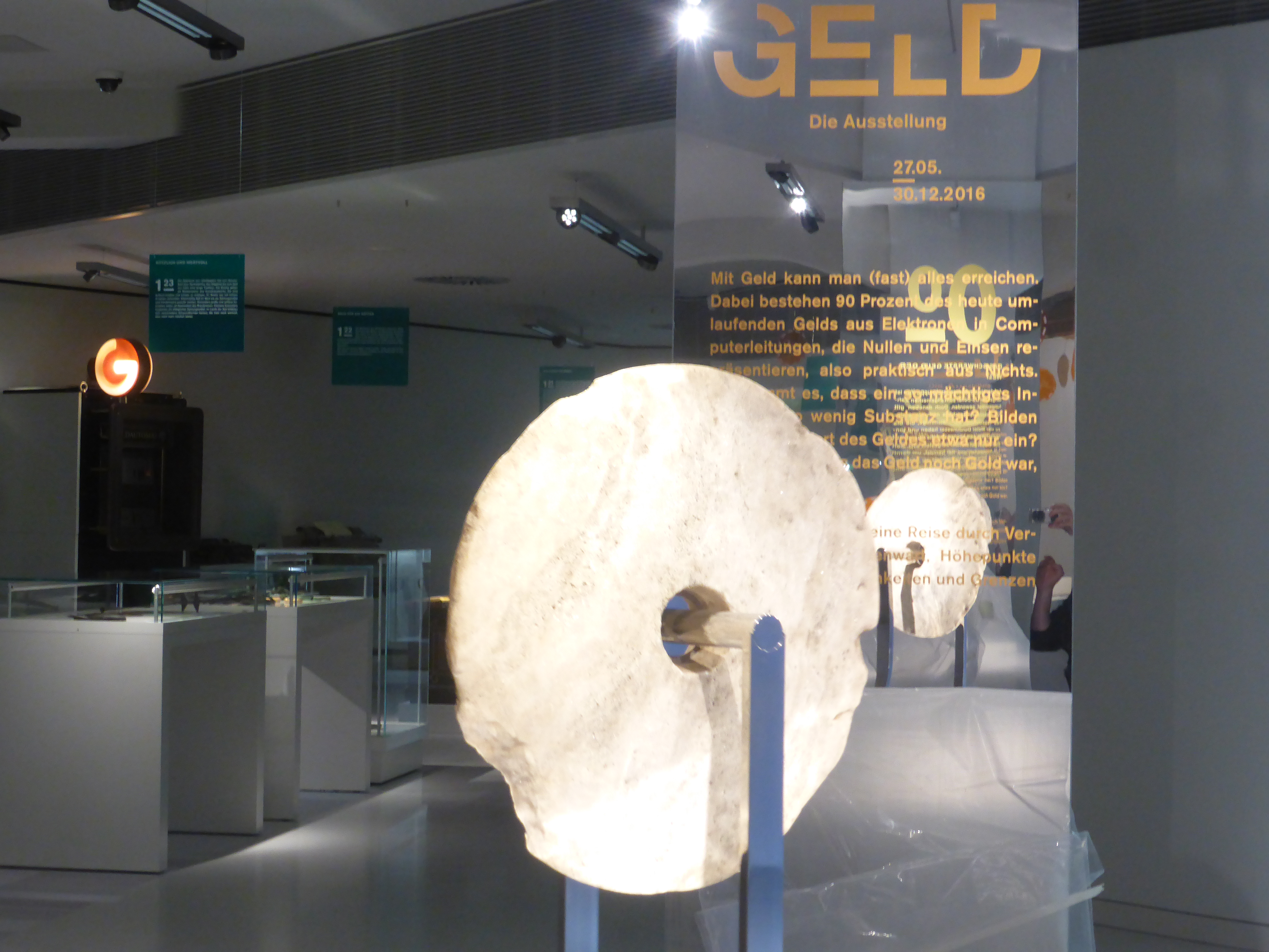 GELD Ausstellung smac